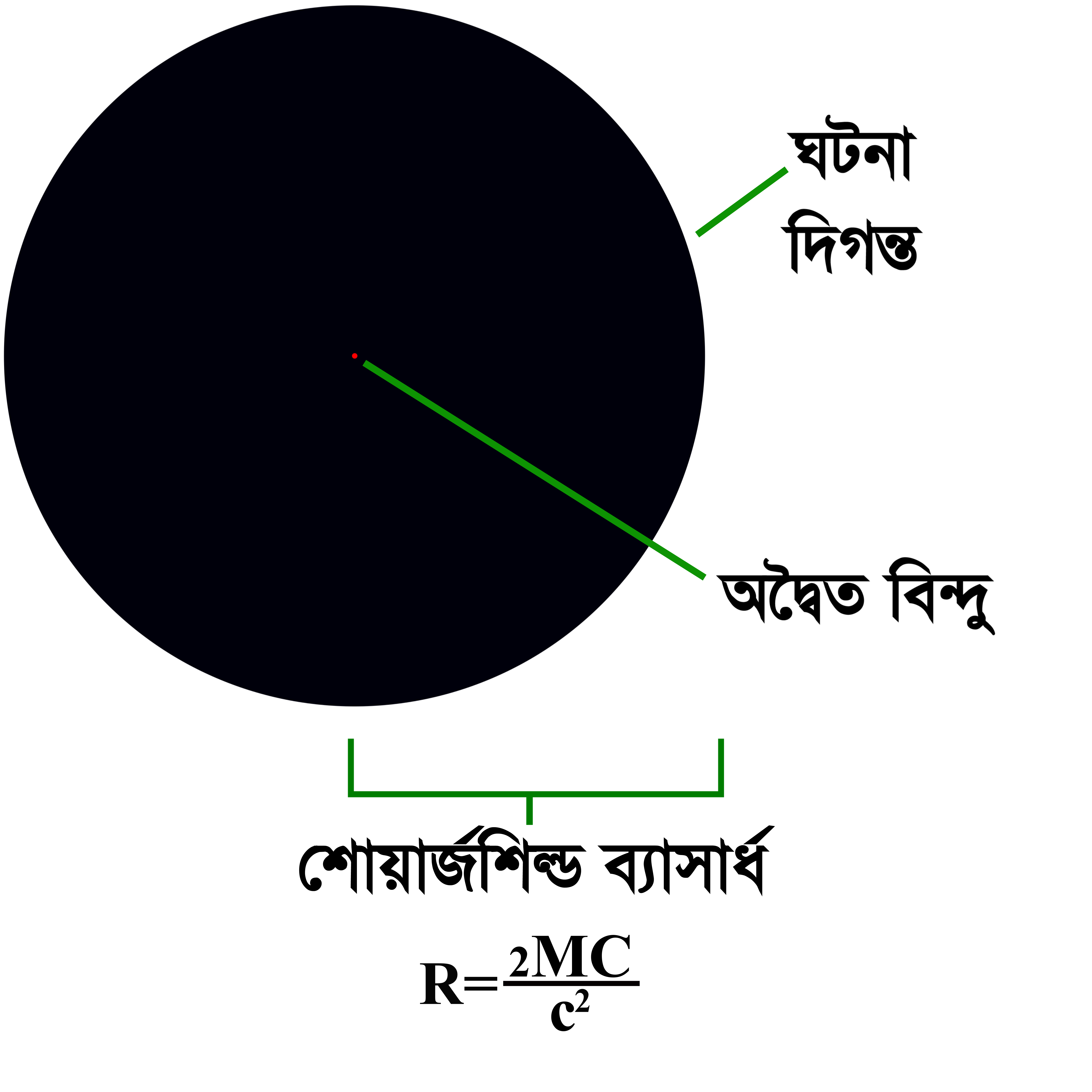 A simple illustration of a non-spinning black hole. Using for Bengali article here.